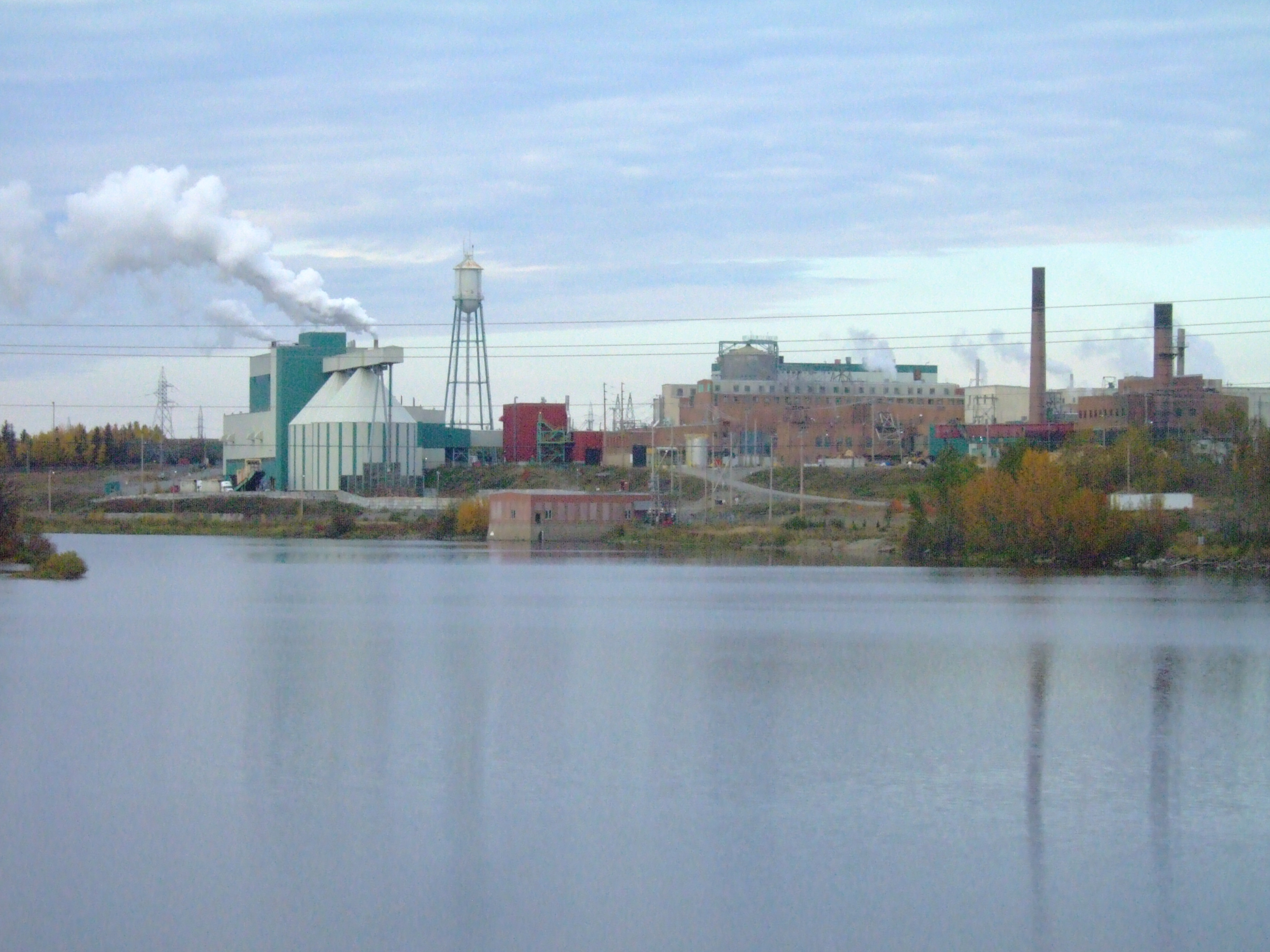 AbitibBowater Mill in Alma, Quebec